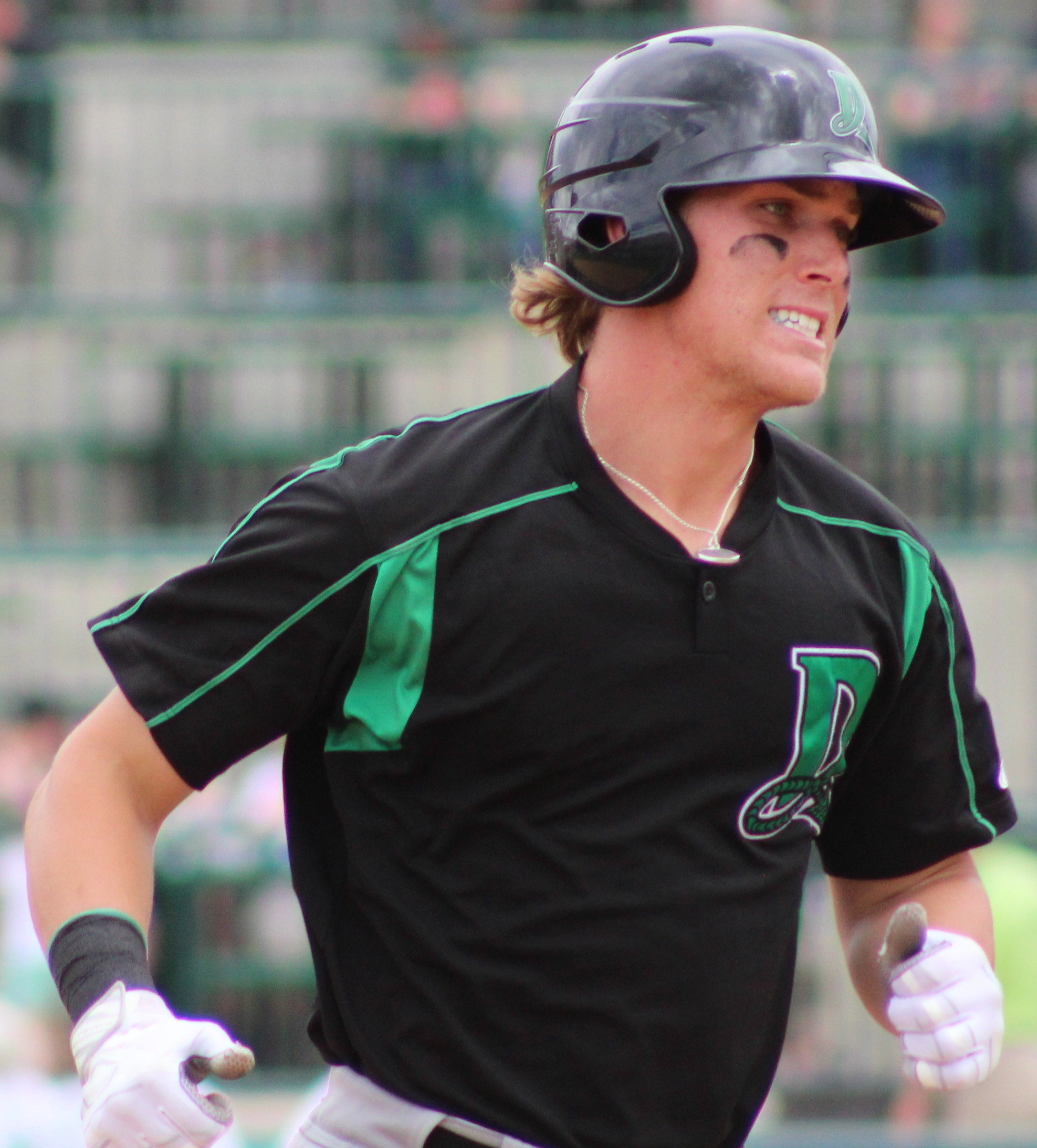 Tyler Stephenson with the Dayton Dragons during a 2017 game at Parkview Field in Fort Wayne, Indiana.